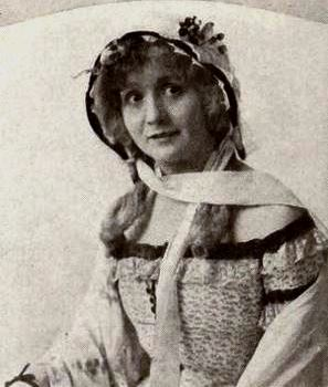 Still from the American drama film Madam Who (1918) with Bessie Barriscale, cropped for publication, on page 18 of the December 8, 1917 Exhibitors Herald.